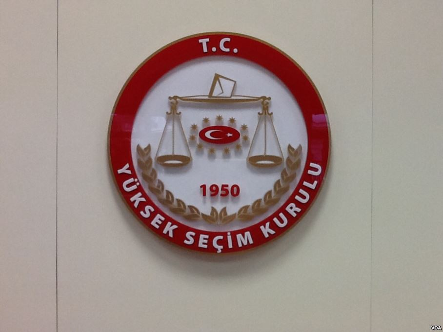 Logo of Supreme Electoral Council of Republic of Turkey.